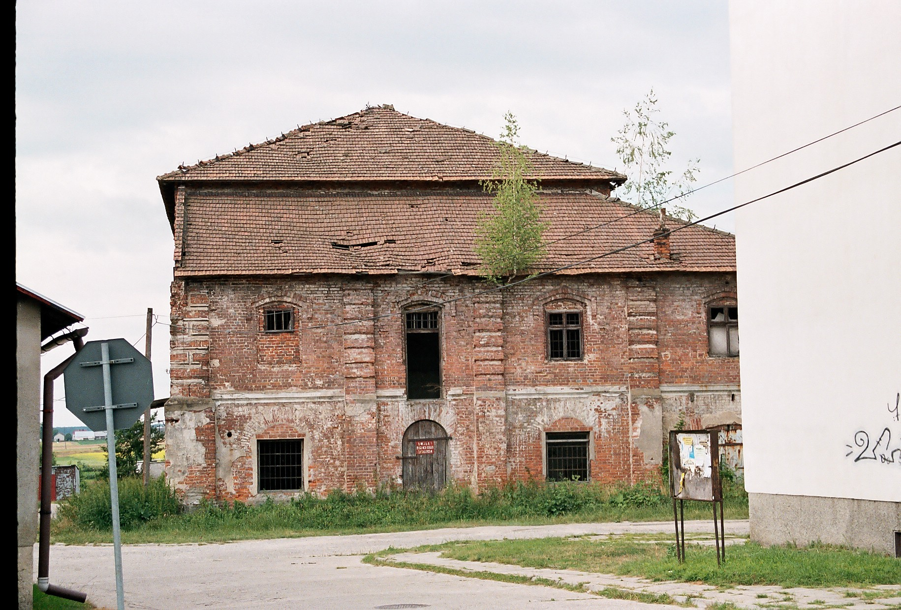 Synagogue in Cieszanow